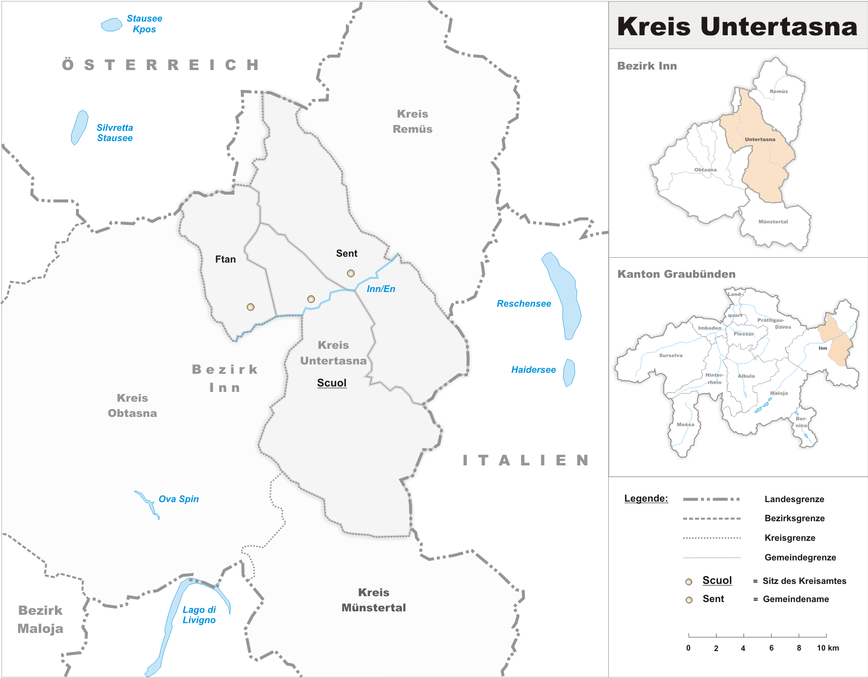 Municipalities in the circle of Untertasna